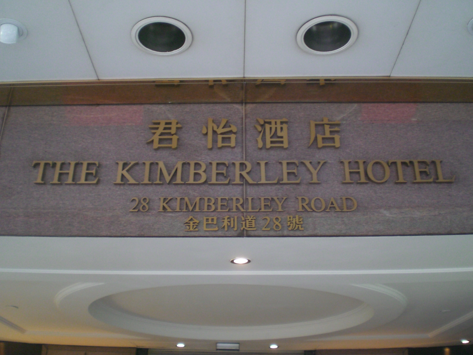 九龍尖沙咀君怡酒店, 金巴利道, Kimberley Road, TST, Hong Kong